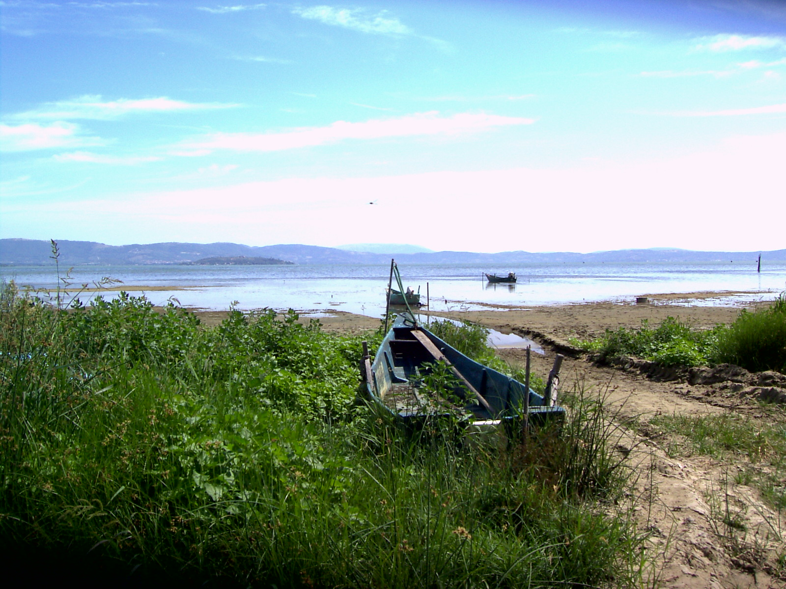 Trasimeno's shore, as it was on July 2008